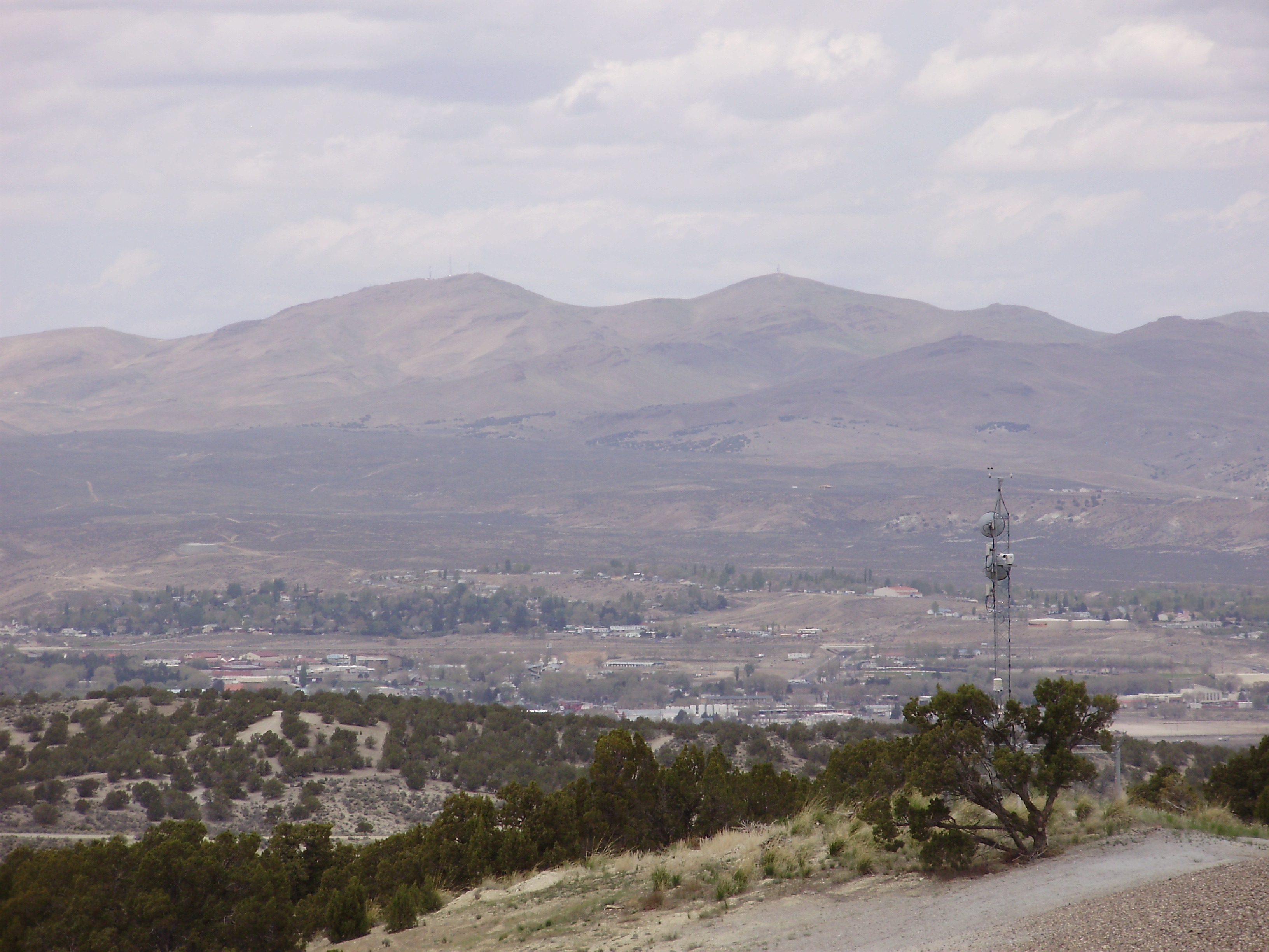 View of Twin Peaks, Adobe Range, Nevada from the southeast side of Elko, Nevada